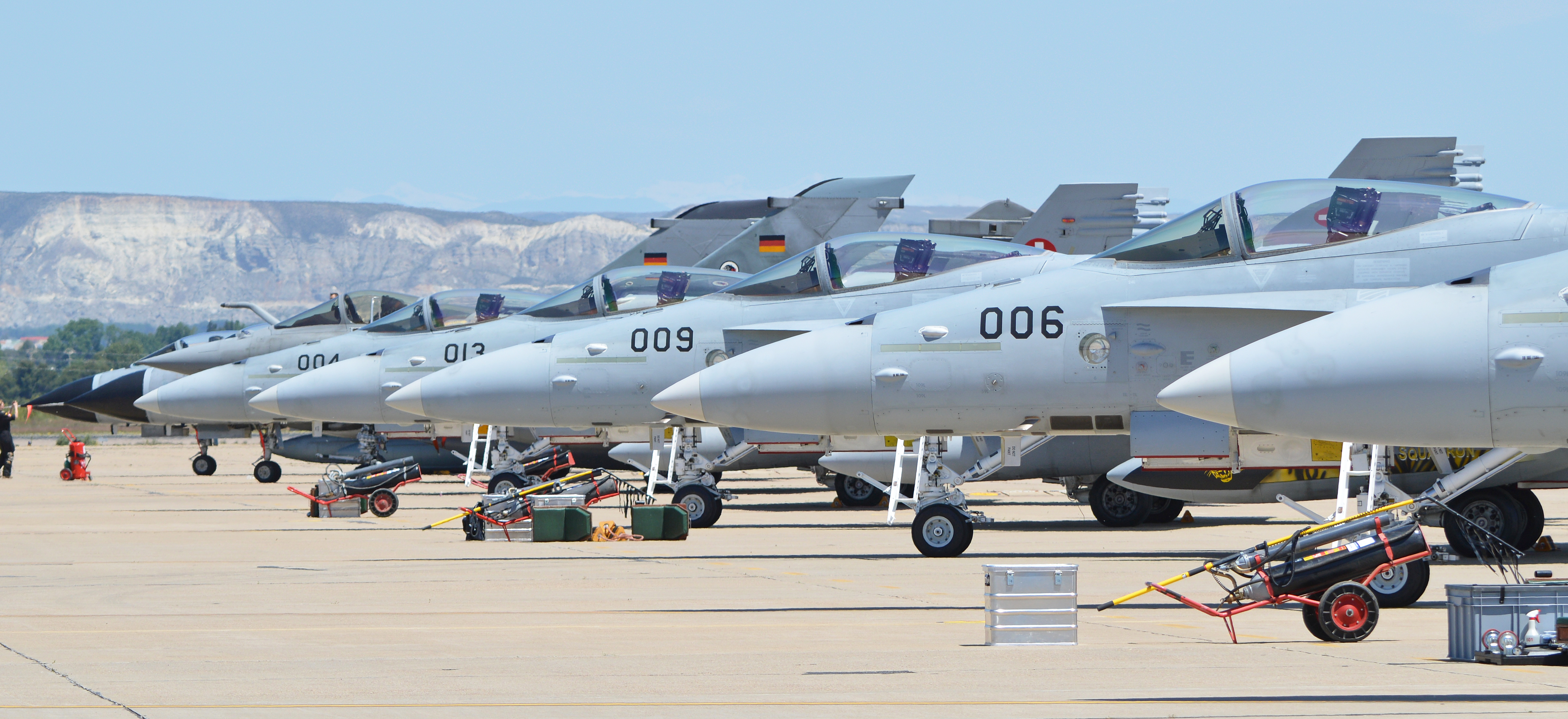 Just a small part of the ramp at the 2016 NATO Tiger meet. Visible here, from near to far:- F/A-18C Hornet ‘J-5006 / 006’ from Fliegerstaffel 11, Swiss Air Force, F/A-18C Hornet ‘J-5009 / 009’ from Fliegerstaffel 11, Swiss Air Force, F/A-18C Hornet ‘J-5013 / 013’ from Fliegerstaffel 11, Swiss Air Force, F/A-18C Hornet ‘J-5004 / 004’ from Fliegerstaffel 11, Swiss Air Force, Rafale M ‘19’ from Flottille 11F, Aeronavale, Tornado ECR ‘46+24’, from TLG-51, German Air Force and Tornado ECR ‘46+55’, from TLG-51, German Air Force. Zaragoza Air Base, Spain. 20th May 2016